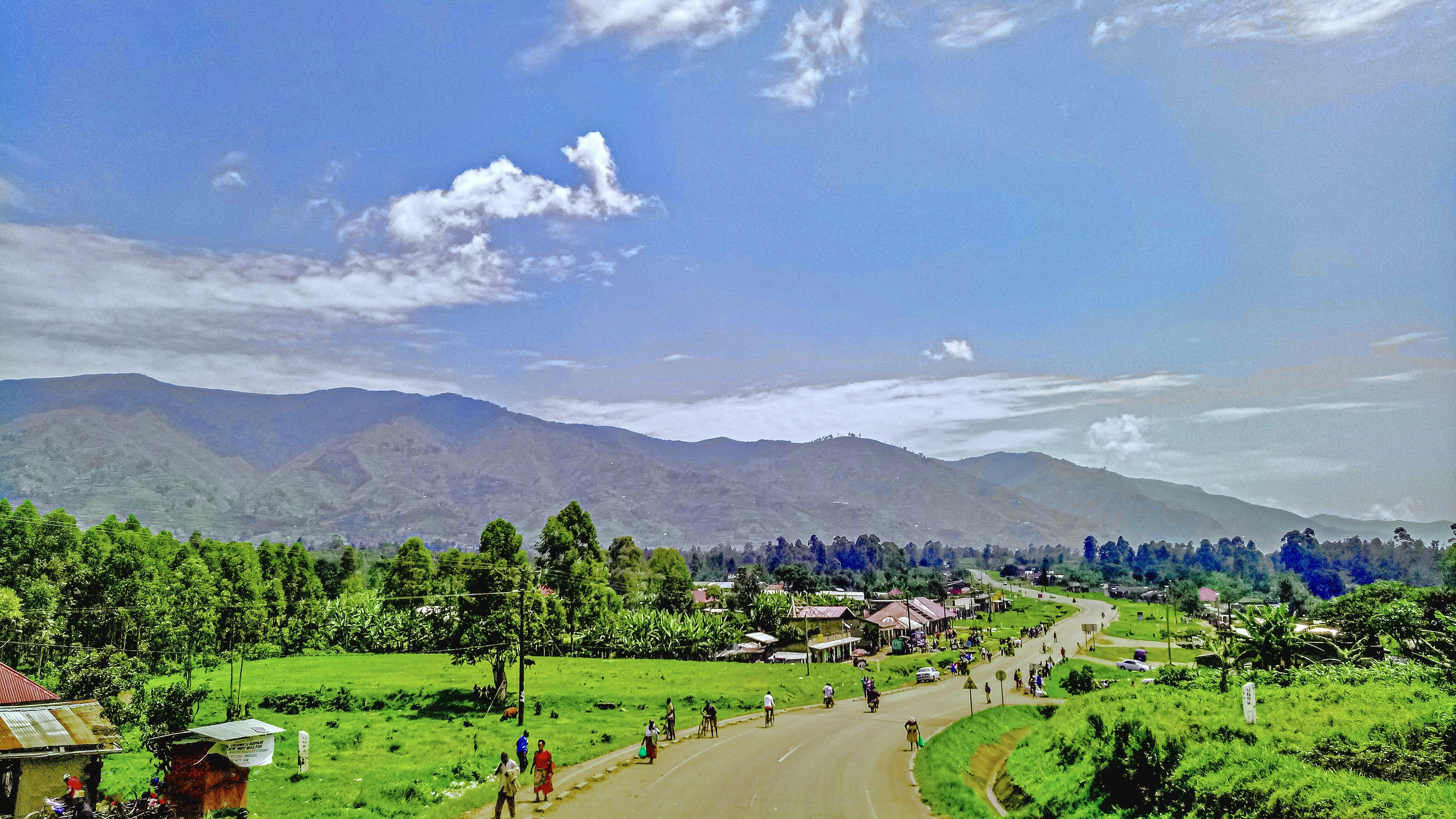 This is an image with the theme "Africa on the Move or Transport" from: Uganda